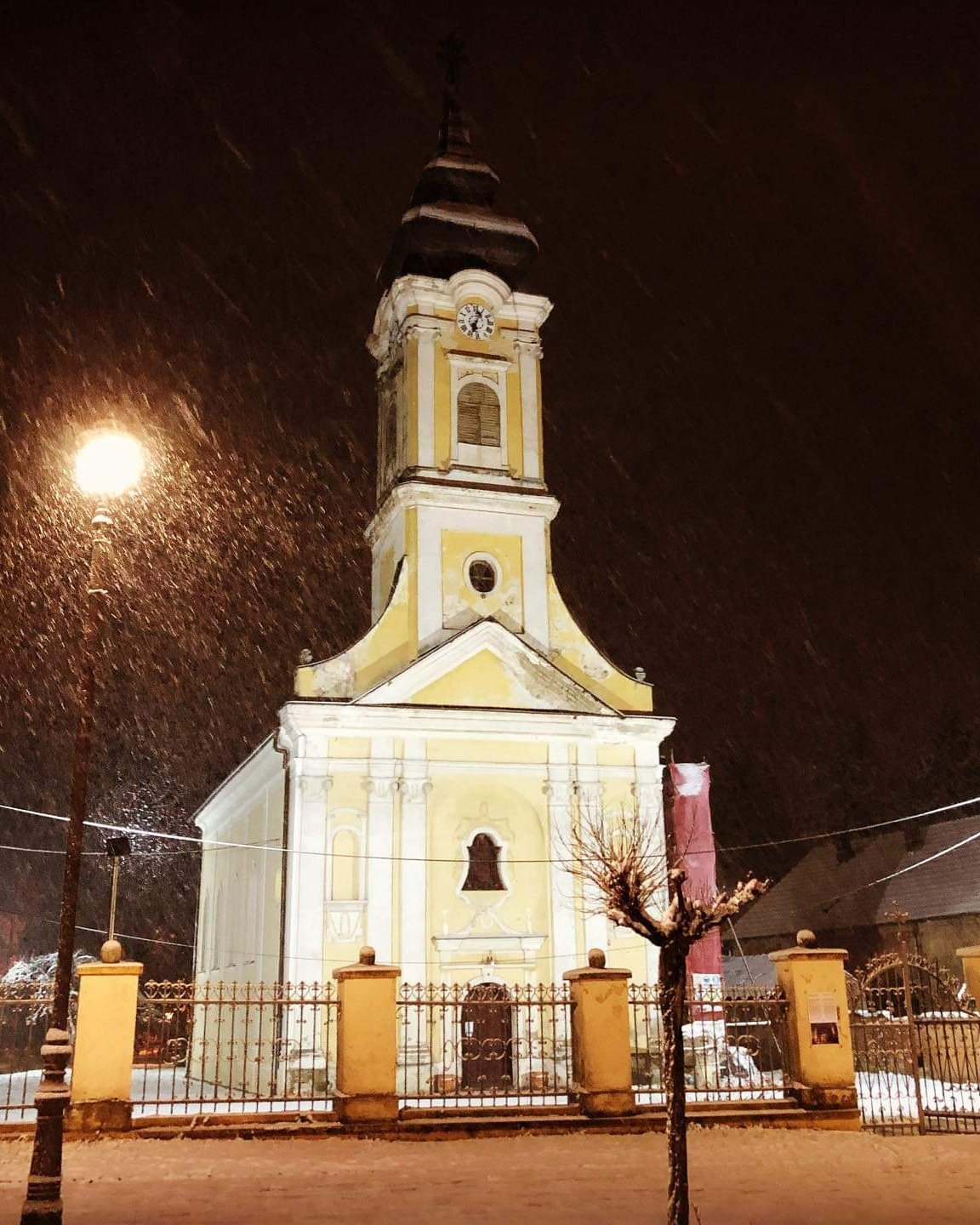 Serbian Ortodox Church in Daruvar, Croatia